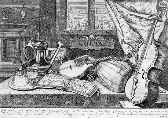 Vanitas Still Life (1622), engraving by Dirck Matham, with lyrics and music by Joan Albert Ban.